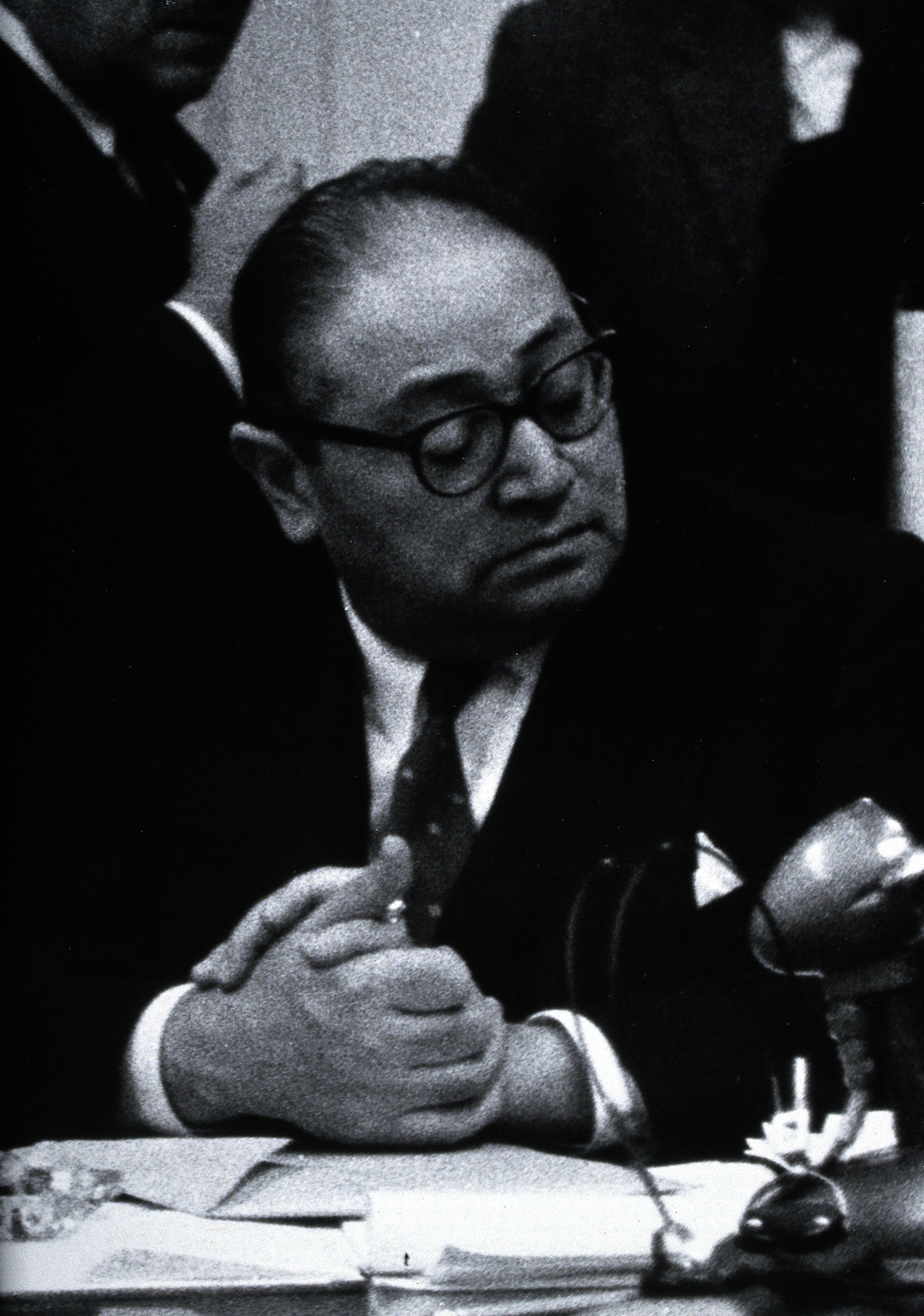 Amador Neghme. Photograph by L.J. Bruce-Chwatt. Iconographic Collections Keywords: portrait photographs